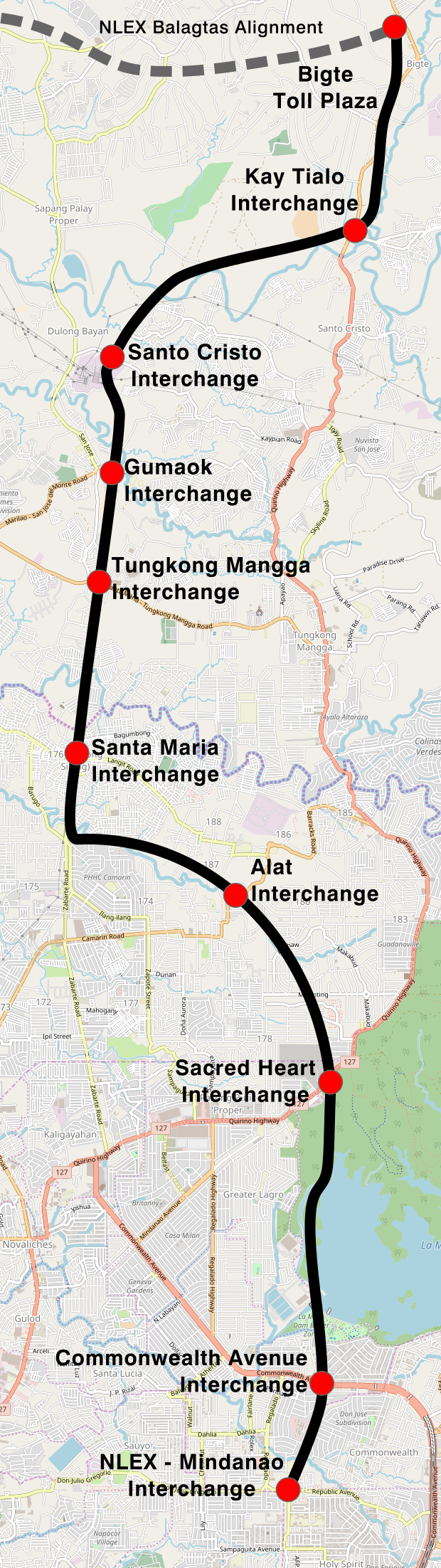 This map of Metro Manila and Municipalities of Santa Maria, Norzagaray and City of San Jose del Monte in Bulacan Province that show the alignment of the Northeast Metro Manila Expressway (La Mesa Parkway) was created from OpenStreetMap project data, collected by the community. This map may be incomplete, and may contain errors. Don't rely solely on it for navigation.